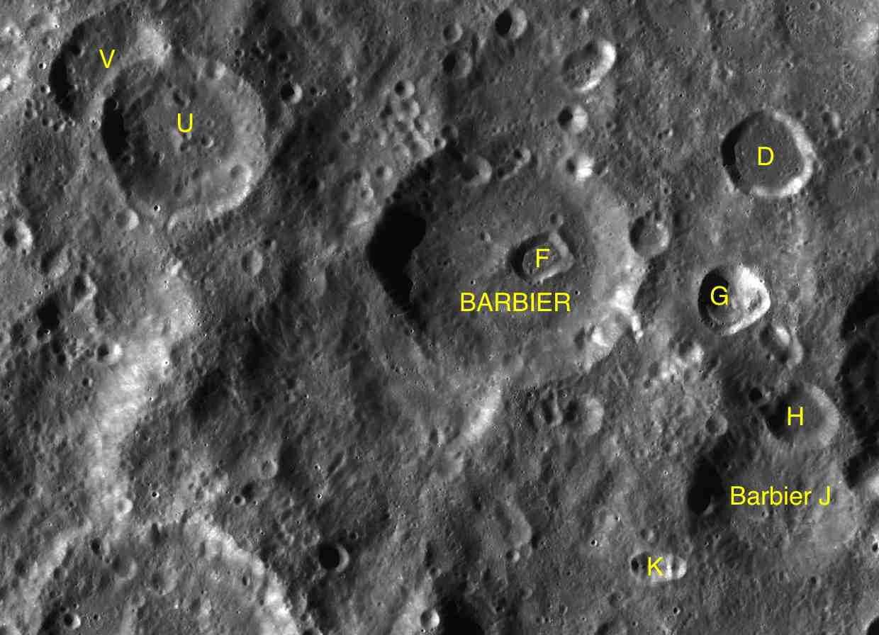 Part of the chart LAC-103 used for the presentation